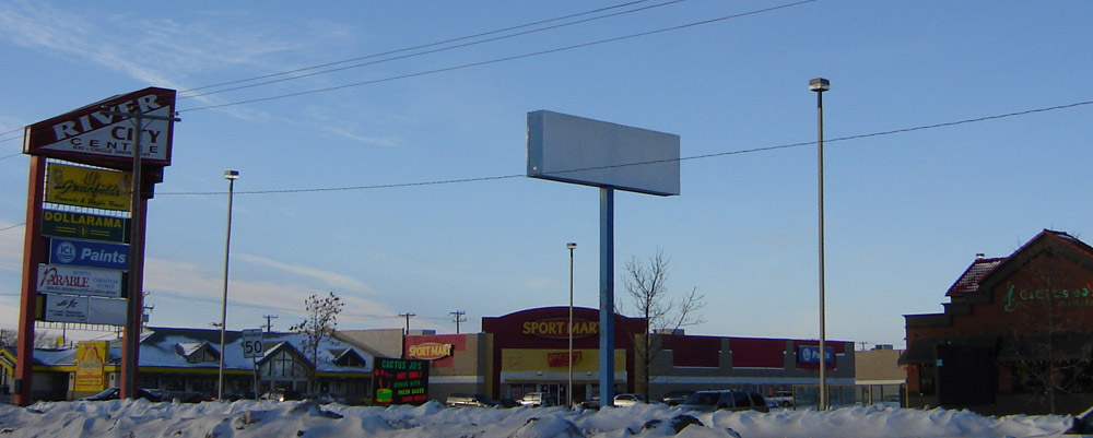 River City Centre Mall North Industrial, North West Industrial Suburban Development Area, Saskatoon, Saskatchewan, Canada